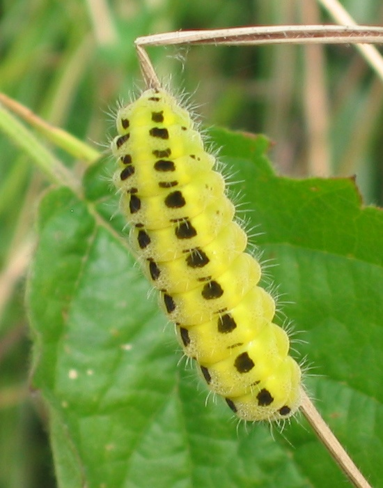 Six-spot Burnet - caterpillar